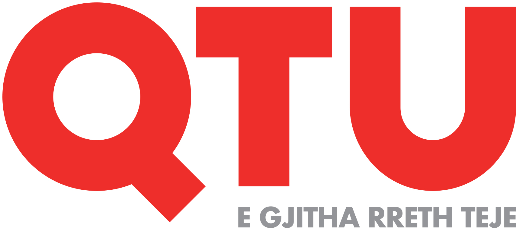 This is the new QTU LOGO - 2018